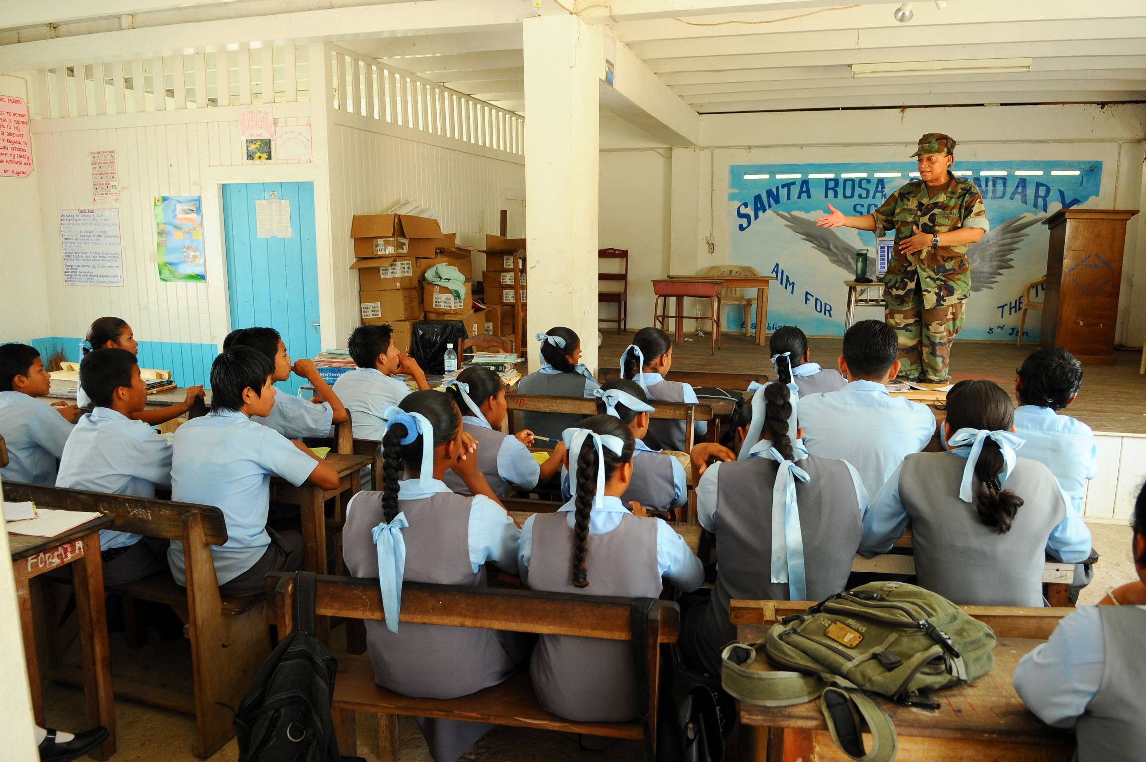 Lt. Cmdr. Celeste Santana, a member of the medical team embarked aboard the amphibious assault ship USS Kearsarge, gives children at the Santa Rosa Secondary School a preventive medicine health lecture. Kearsarge is supporting the Caribbean phase of Continuing Promise 2008, an equal-partnership mission between the United States, Canada, the Netherlands, Brazil, Nicaragua, Colombia, Dominican Republic, Trinidad and Tobago and Guyana.